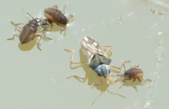 Veliidae bugs probably genus Microvelia from the Western Ghats of northern Kerala, India